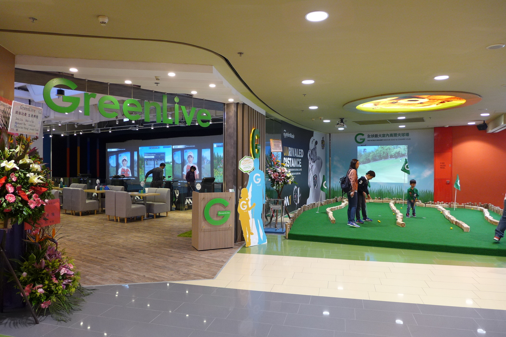 MegaBox Level 7 GreenLive Indoor Golf Course